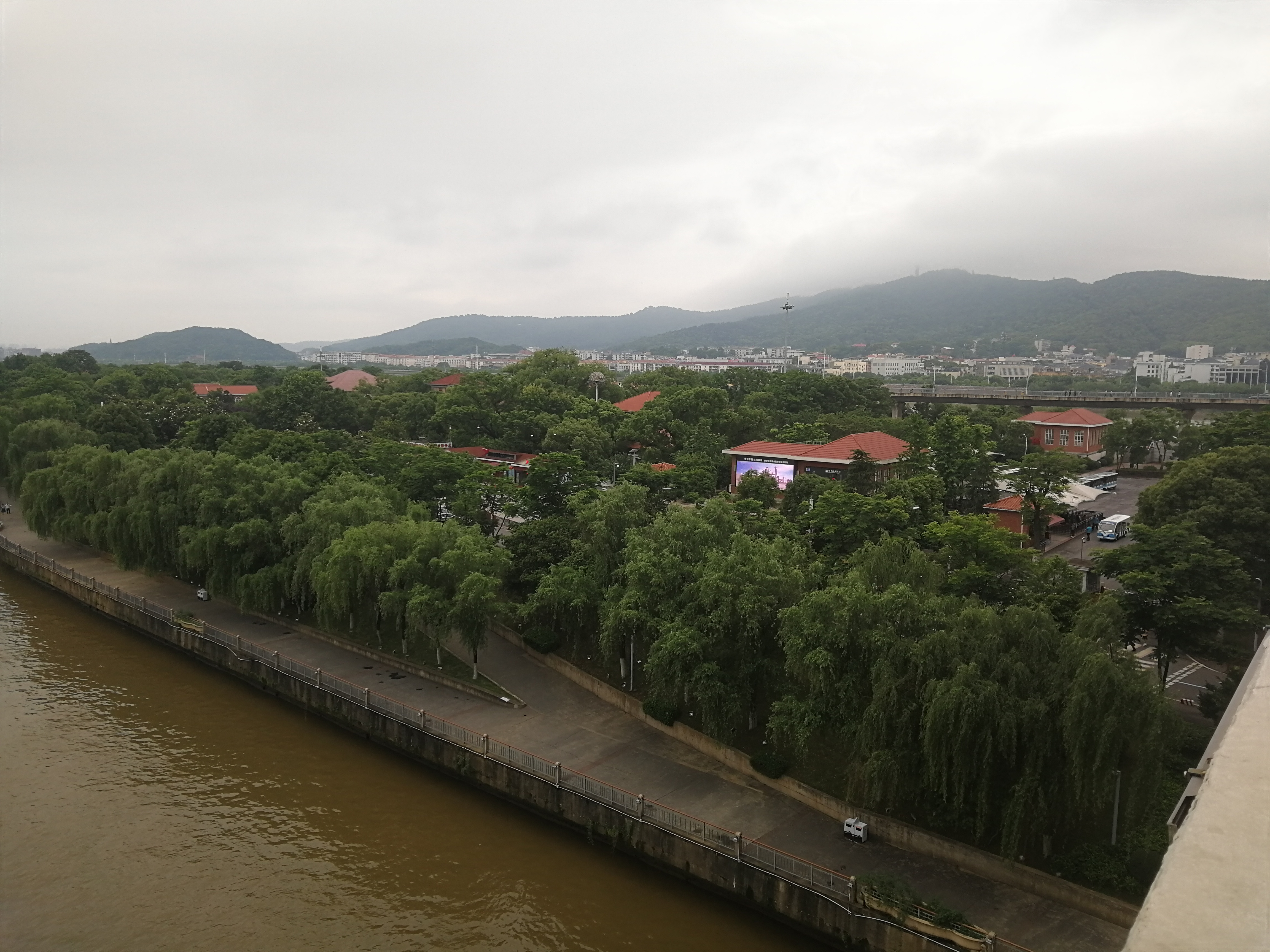 Juzizhou Station (Line 2) seen from the bridge